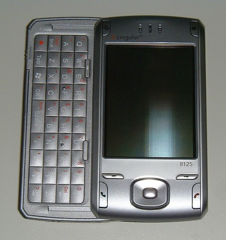 Picture of a Cingular 8125, which is based on the HTC Wizard 110.